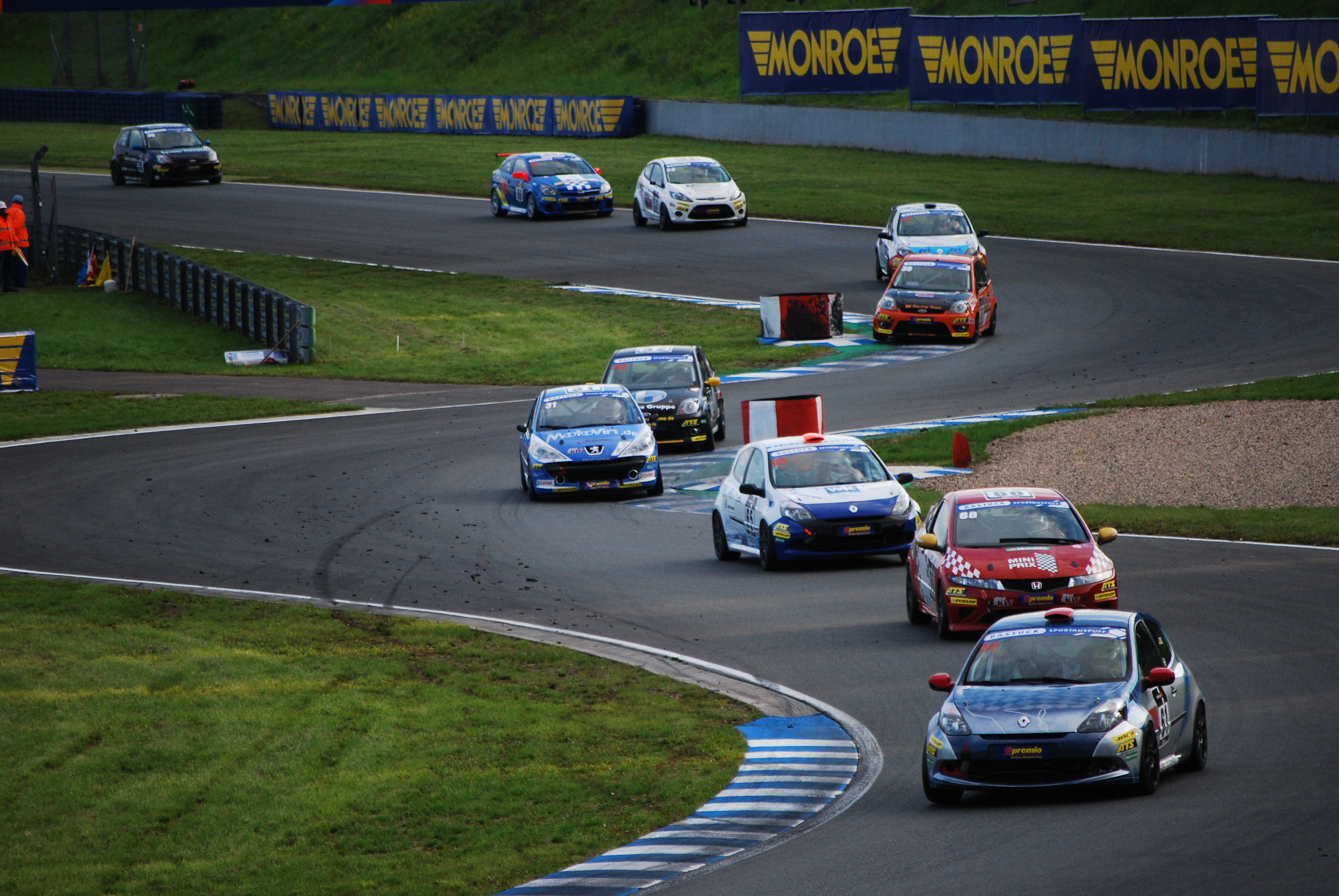 part of the 2000 class of ADAC Procar at Oschersleben.